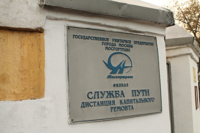 Сегодня Бутырское трамвайное депо принадлежит МОСГОРТРАНС. В не располагается Служба Пути